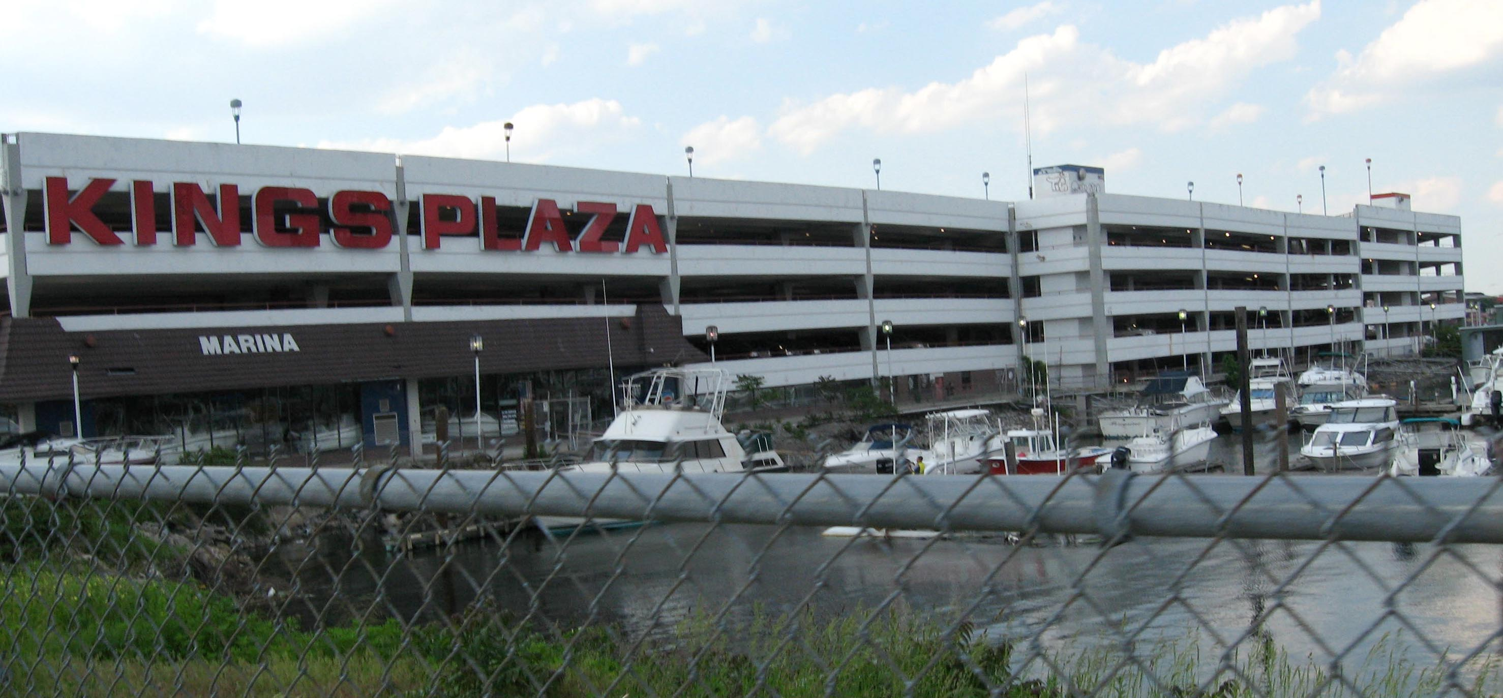 Looking north from Marine Parkway at Kings Plaza mall and marina on a sunny afternoon.